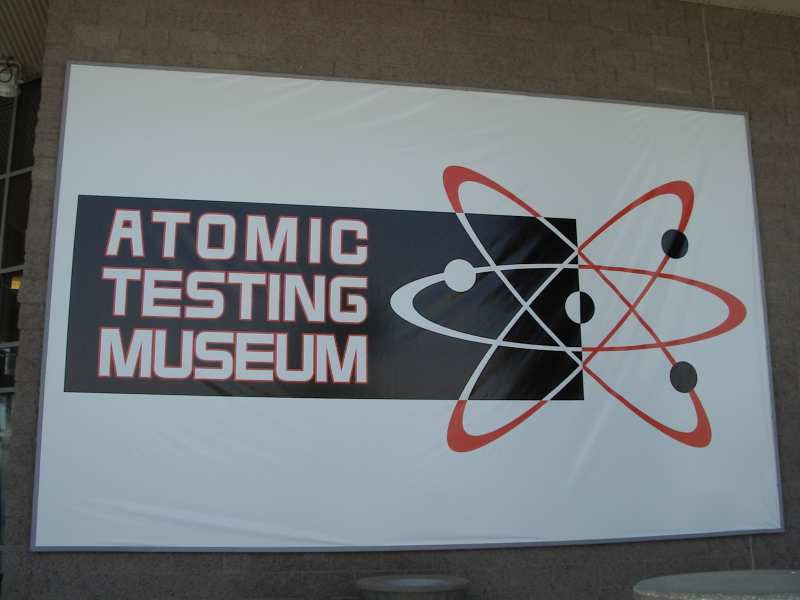 Sign outside Atomic Testing Museum, Las Vegas